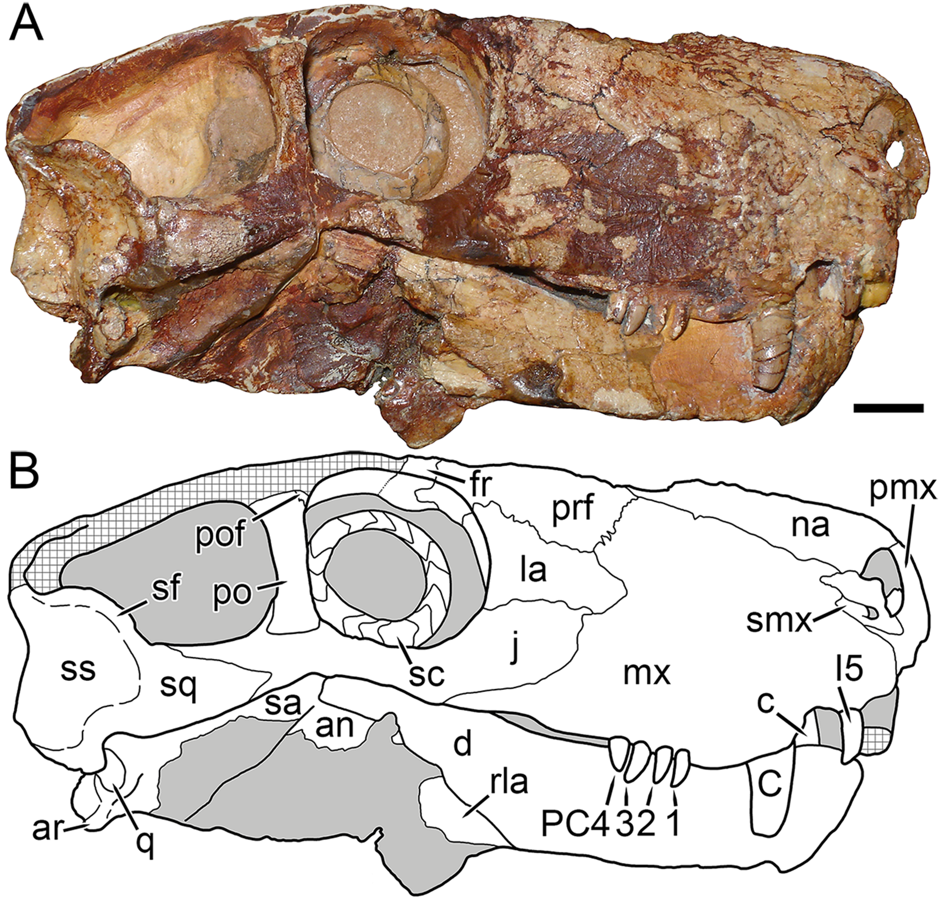 (A) PIN 2212/6, holotype of Viatkogorgon ivakhnenkoi, in right lateral view with (B) interpretive drawing. Abbreviations: an, angular; ar, articular; C, upper canine; c, lower canine; d, dentary; fr, frontal; I, upper incisor; i, lower postcanine; j, jugal; la, lacrimal; mf, maxillary flange; mx, maxilla; na, nasal; pa, parietal; PC, upper postcanine; pc, lower postcanine; pf, pineal foramen; pmx, premaxilla; po, postorbital; pof, postfrontal; pp, preparietal; prf, prefrontal; rla, reflected lamina of angular; sa, surangular; sc, sclerotic ring; sf, squamosal flange; smx, septomaxilla; sq, squamosal; ss, squamosal sulcus. Gray indicates matrix, hatching indicates plaster. Scale bars equal 1 cm.